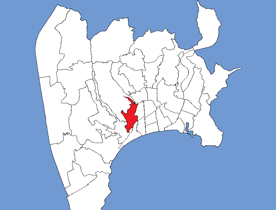 Location of the neighbourhood Saint Philippe in Nice